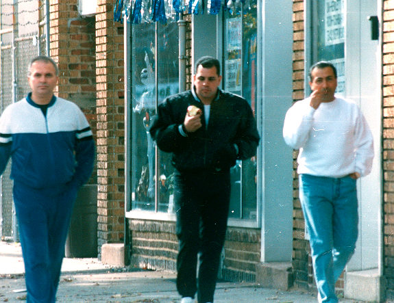 An FBI surveillance photo of suspected mobsters Thomas (Tommy Sneakers) Cacciopoli, John (Junior) Gotti and John Cavallo.